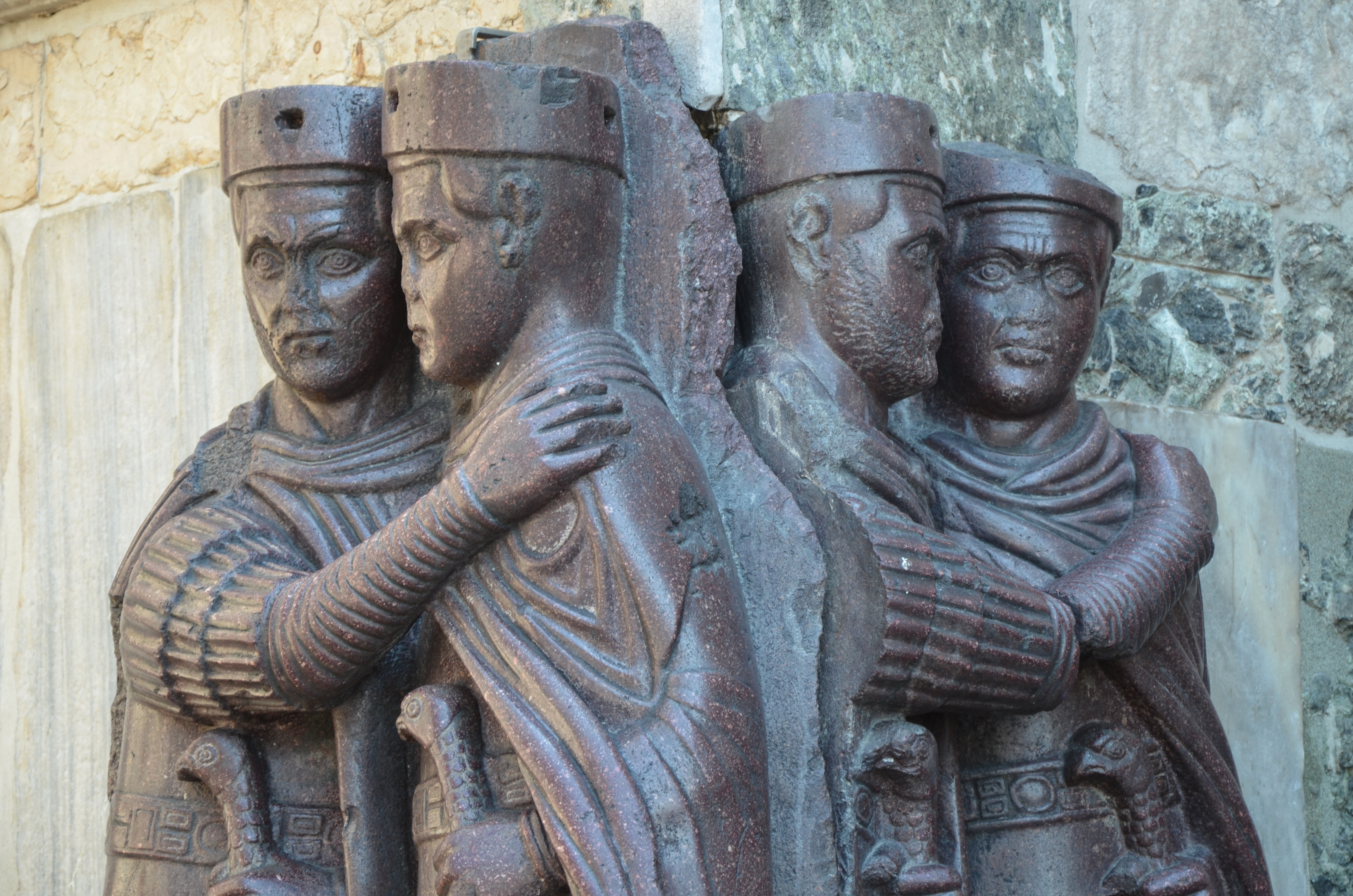 The tetrarchs (from the Greek words for "Rulers of a quarter") were the four co-rulers that governed the Roman Empire as long as Diocletian's reform lasted. On a corner of Saint Mark's in Venice, next to the "Porta della Carta", stands a statue where they are portraied embracing, in sign of harmony: it is a porphyry sculpture dating from the 4th century, sculpted in Asia Minor. It probably originally decorated two separate pillars and were plundered by the Venetians from Constantinople.